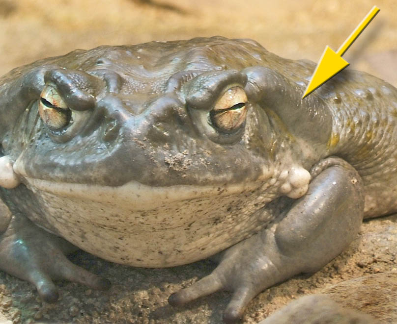 Colorado River Toad